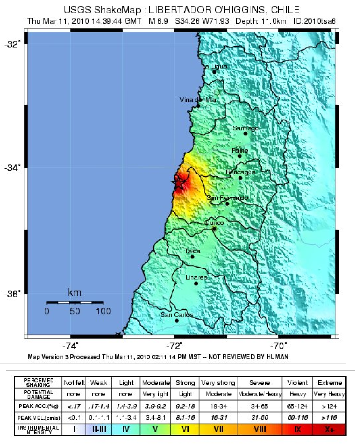 Map showing the intensity of shaking from the 2010 Pichilemu earthquake, produced by the USGS